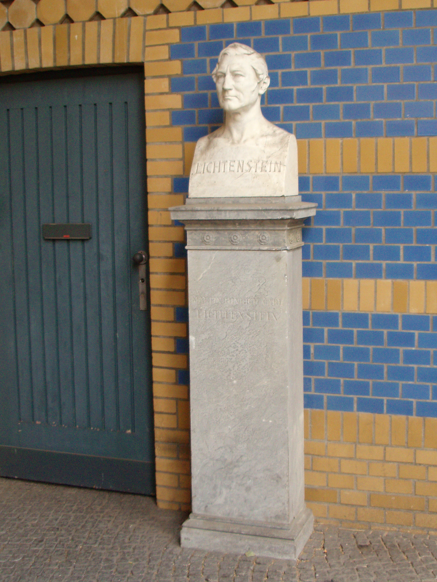 Monument to Martin Lichtenstein in Berlin Zoological Garden